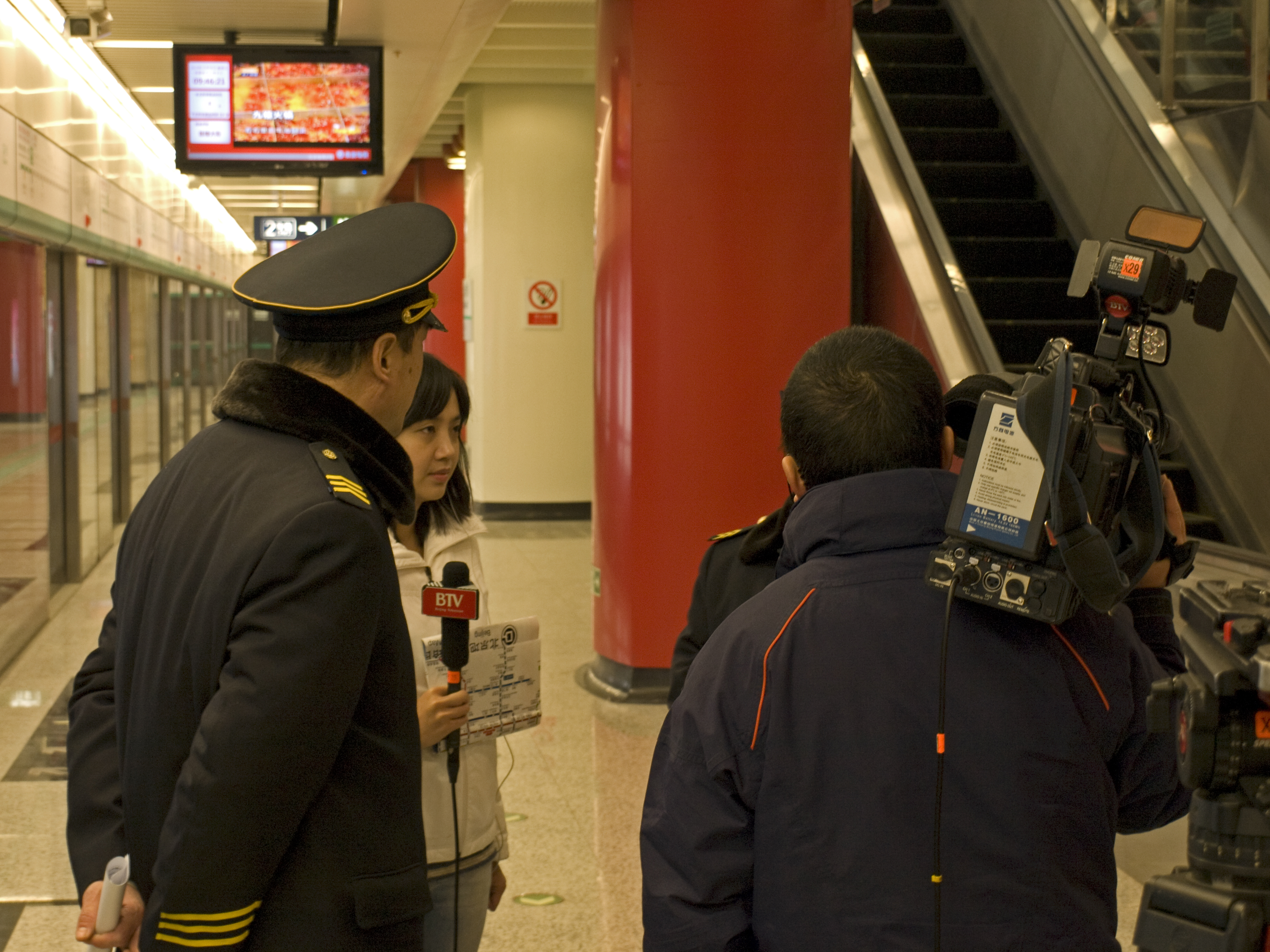 A Beijing TV company BTV interviews Beijing Subway officials around 10:00 December 30, 2012, the day when over 40 new stations were open and Beijing Subway became the longest in the world. The interview takes place on Guloudajie Station, Line 8, one of the new stations open on that day.